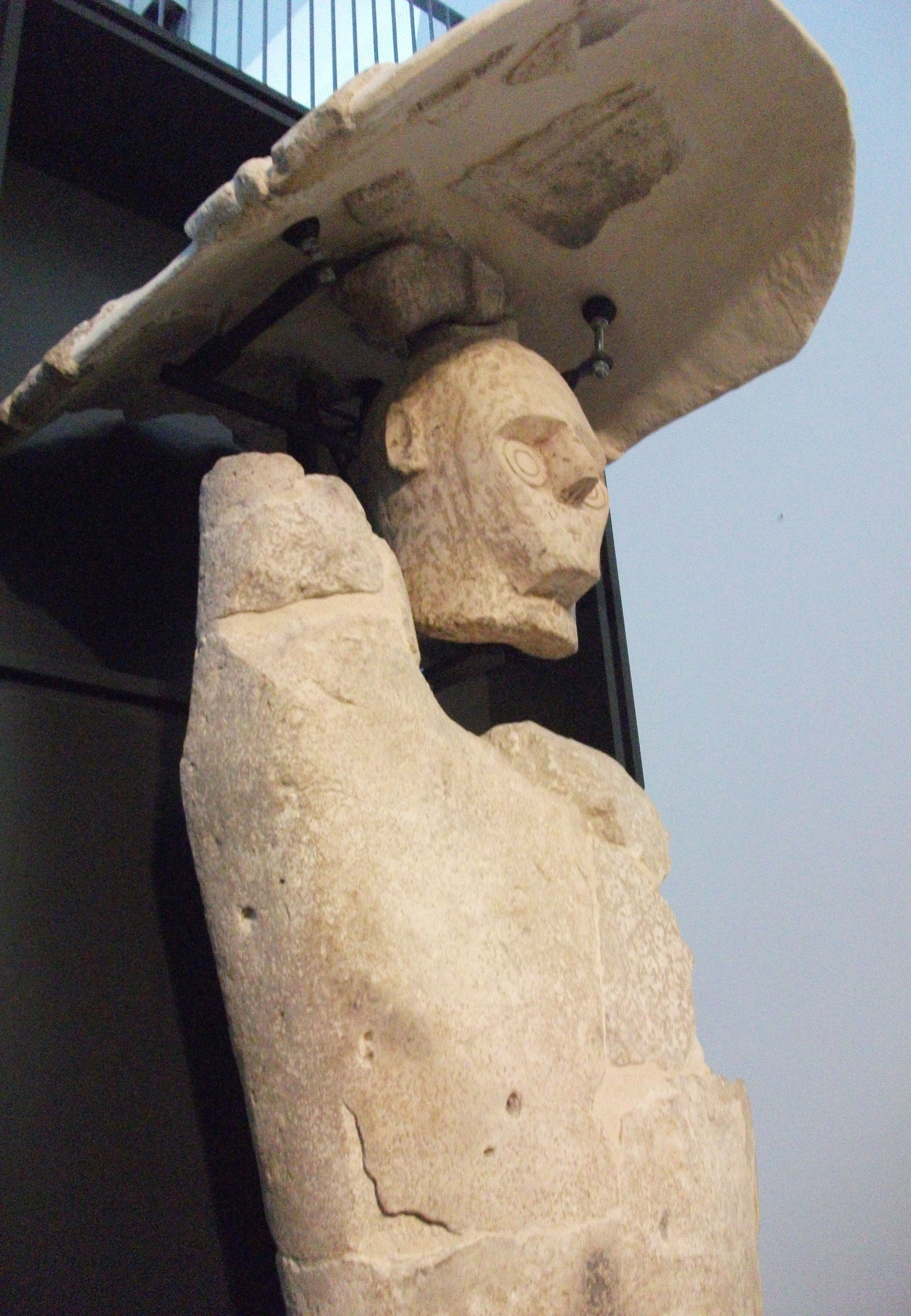 boxer, Sculpture, Giant of Monte Prama, Sardinia, Italy, Nuragic civilization, archaeology, bronze age